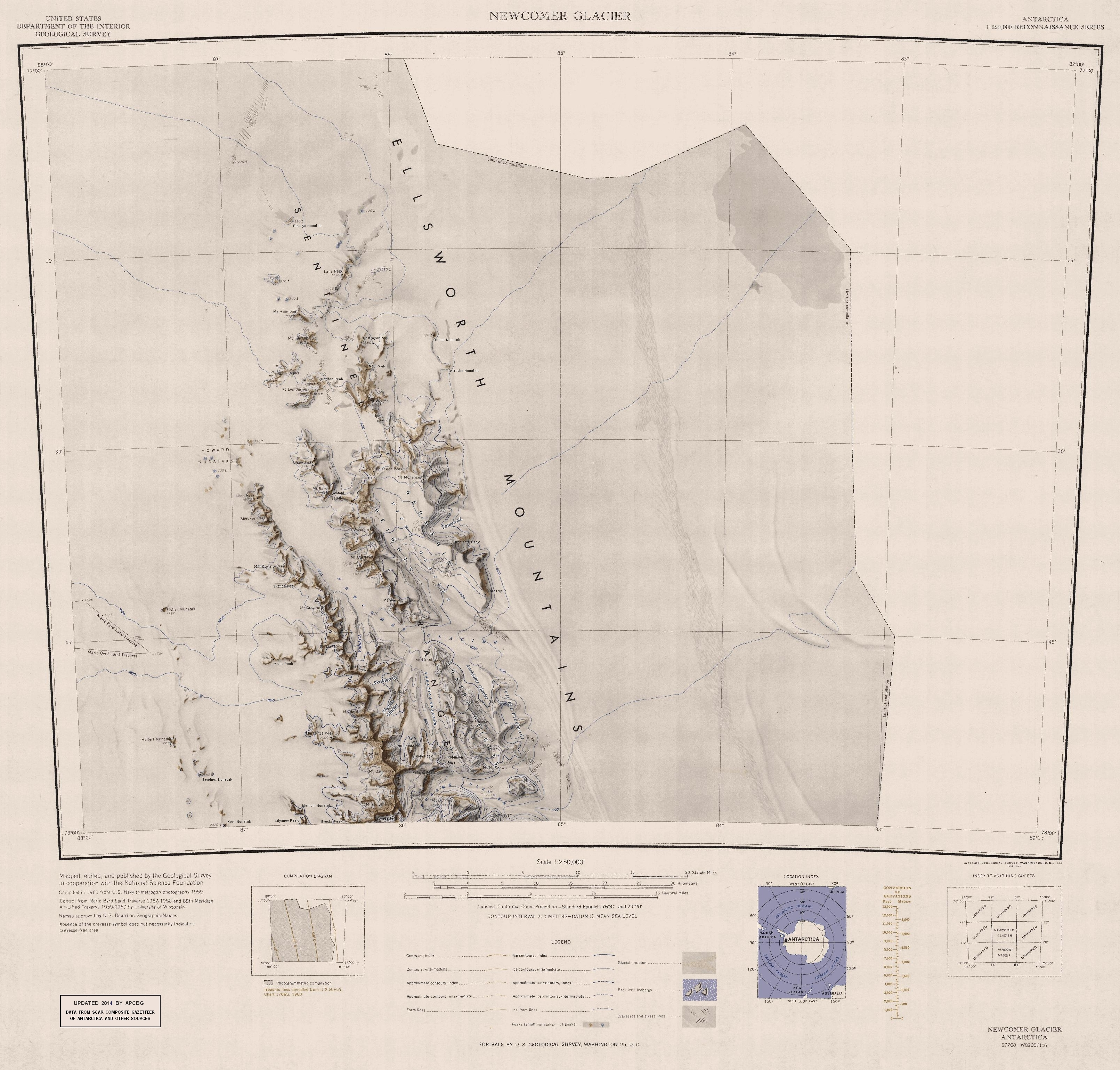 Map of Northern Sentinel Range in Ellsworth Mountains, Antarctica